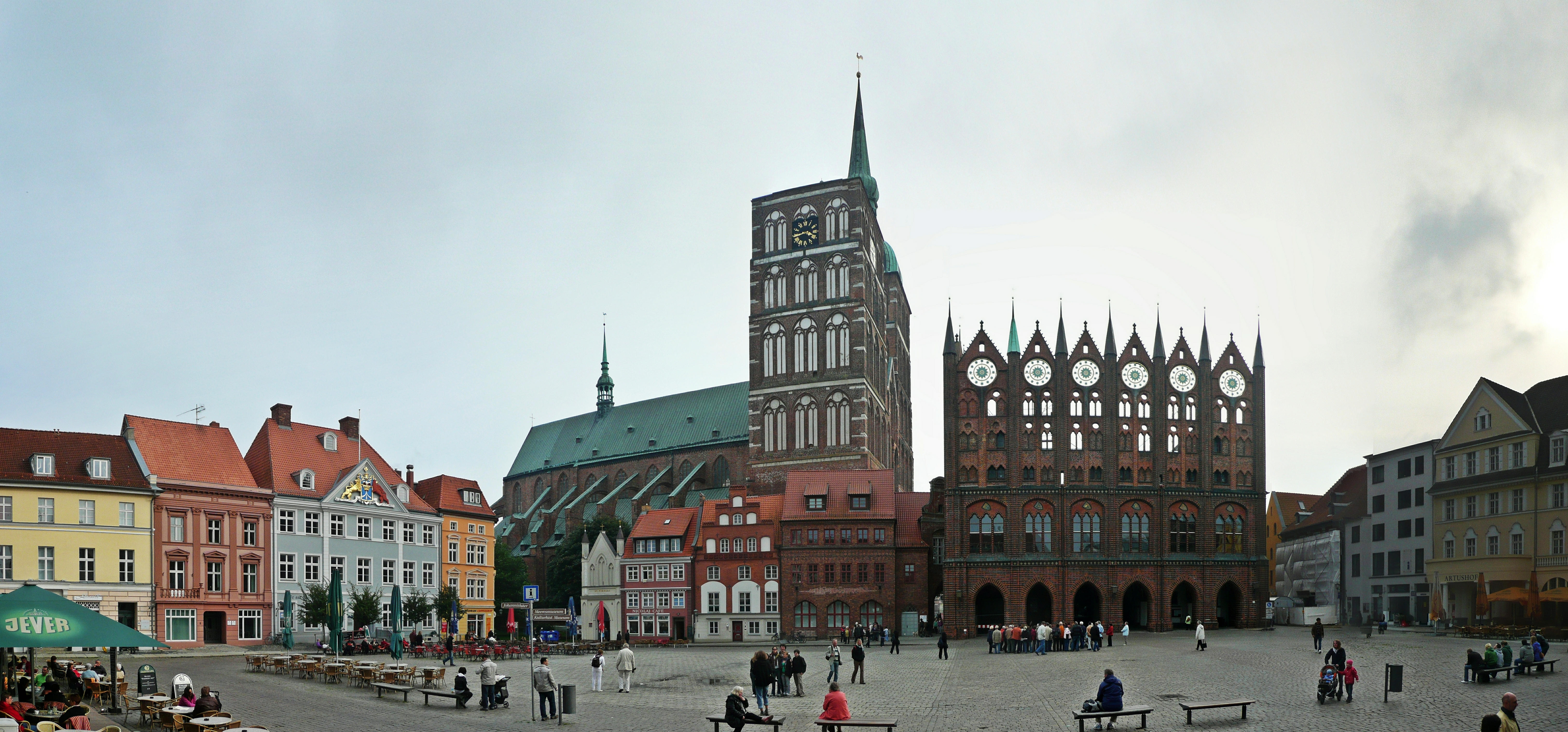 Stralsund: panorama of the old market place with townhall and St.-Nicolai-church.